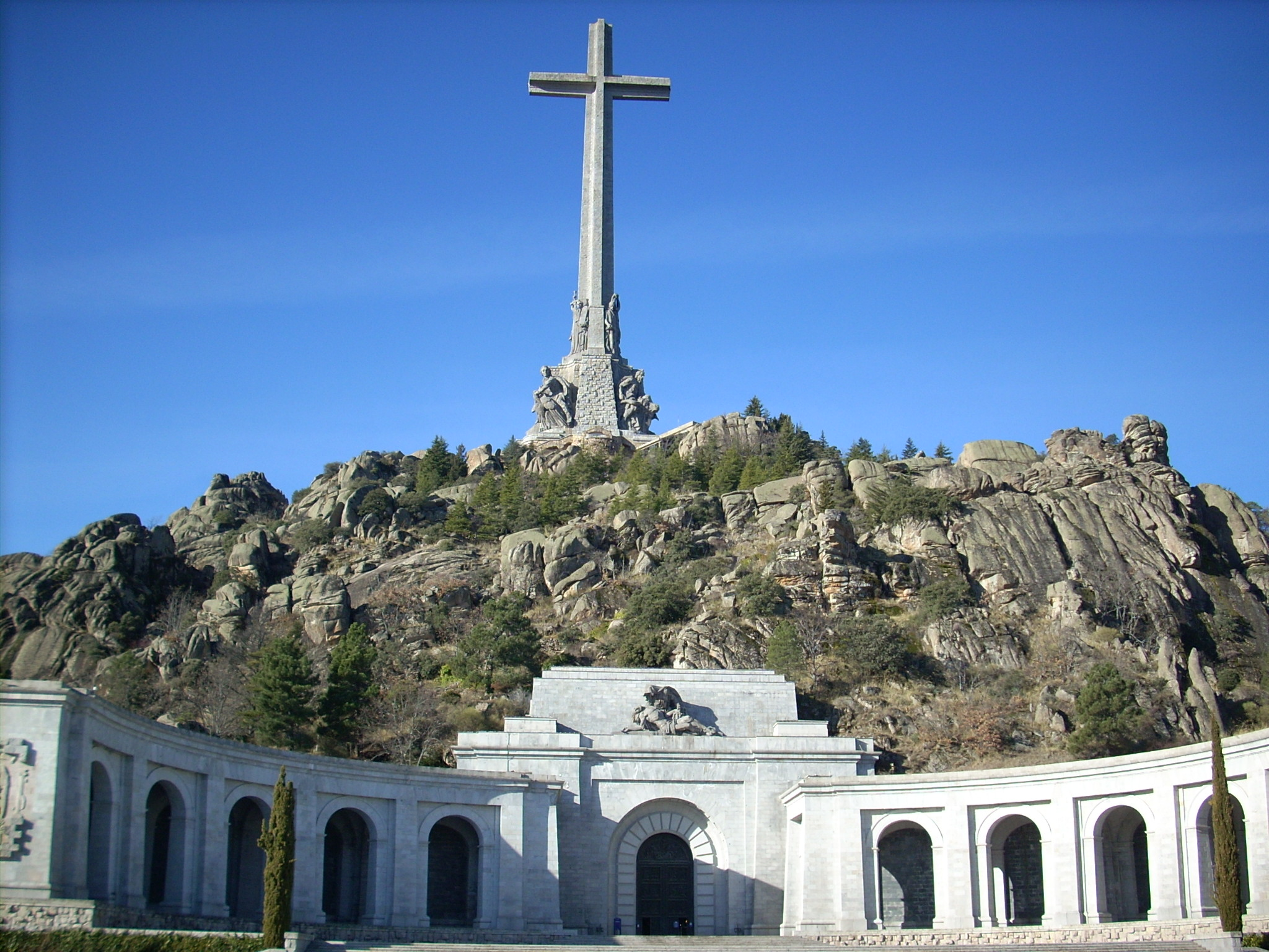 Frontal view of the Valle de los Caídos and Santa Cruz basílica. El Escorial, Madrid, Spain.